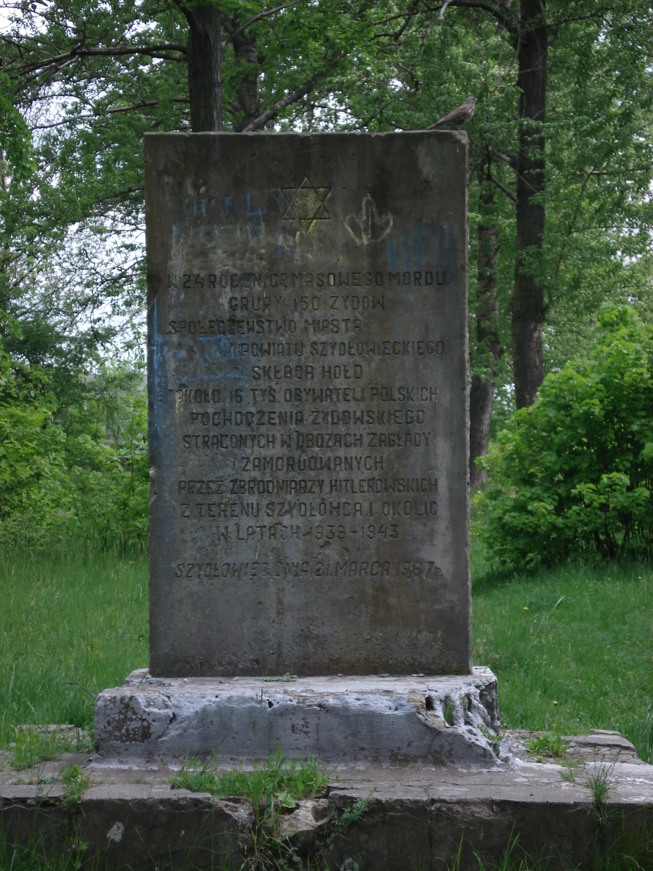 monument in jewish cementery in Szydłowiec